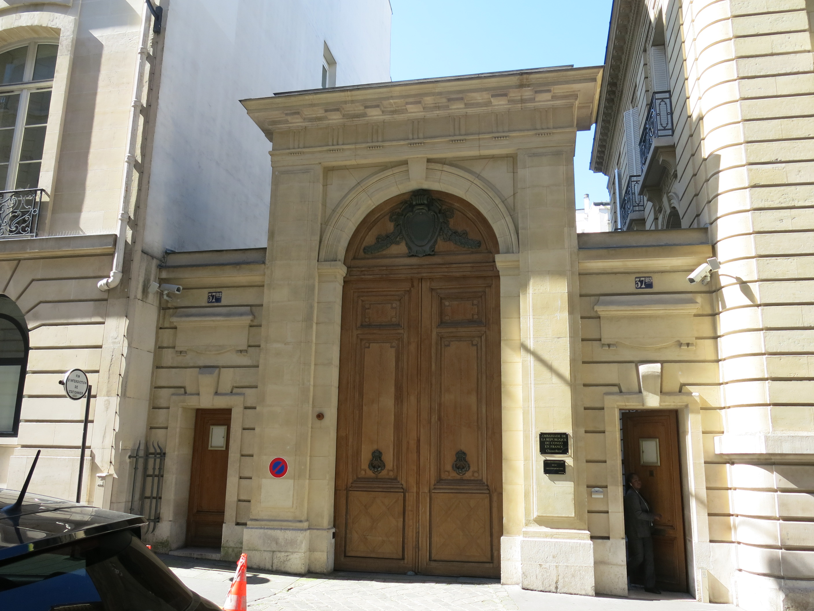 Building 37 bis rue Paul Valéry, Paris 16th arrond. (France). In 2016, it is the embassy of the republic of the Congo.